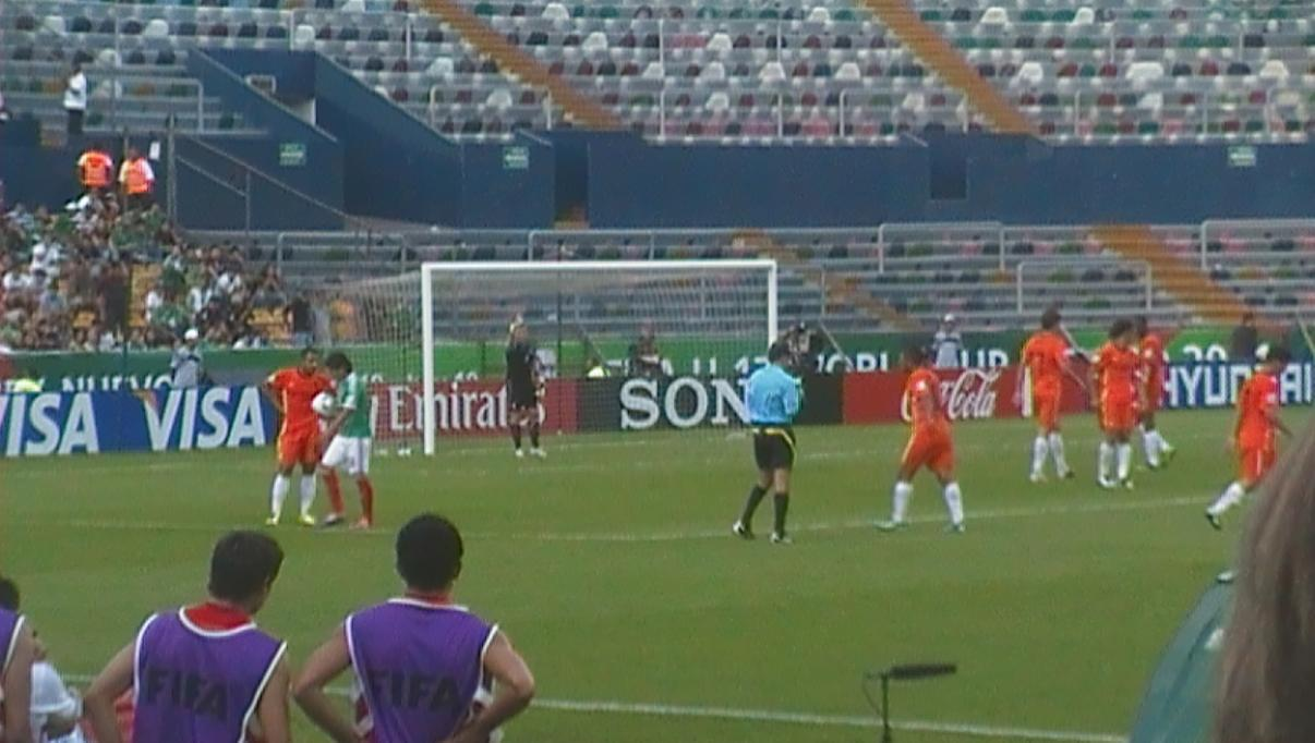 Free Kick on a FIFA U-17 World Cup against Mexico and Netherlands